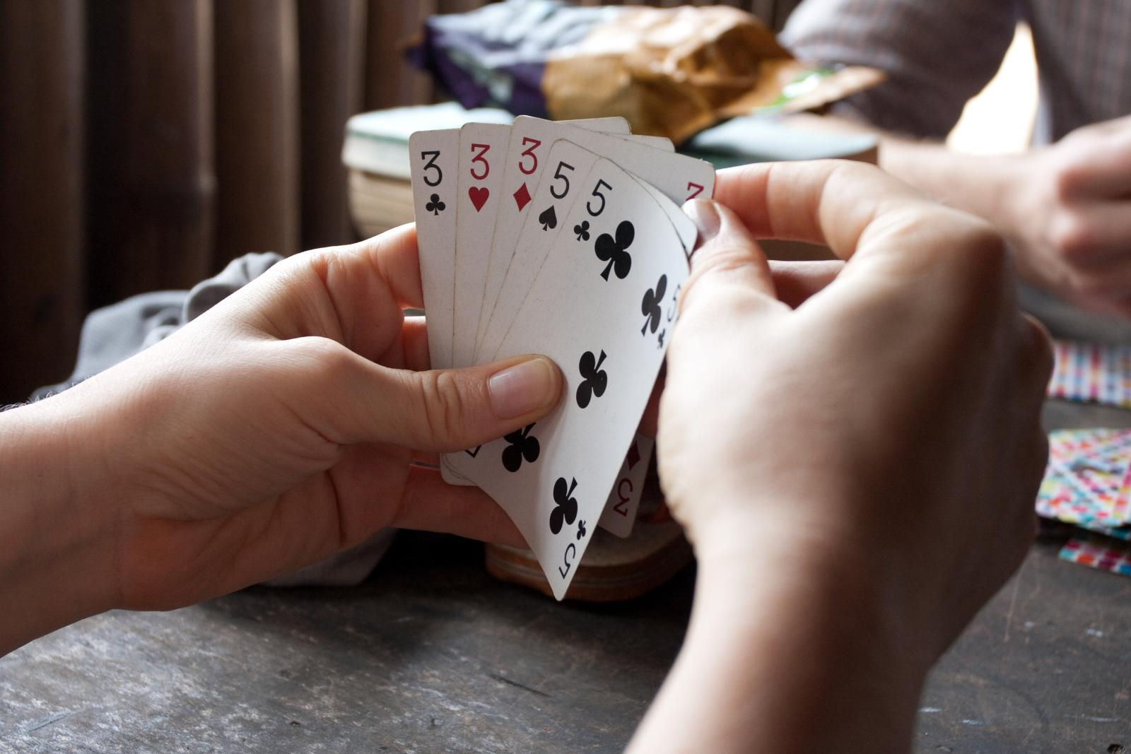 A hand of Shithead (card game)